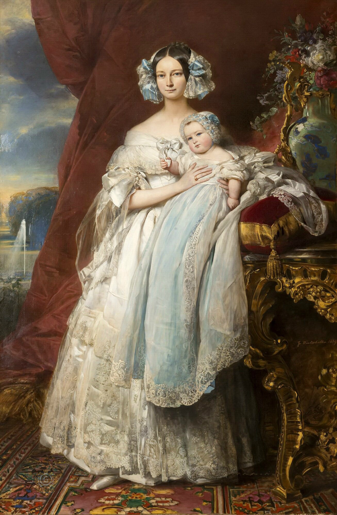 Portrait of Helena of Mecklemburg-Schwerin, Duchess of Orleans with her son the Count of Paris